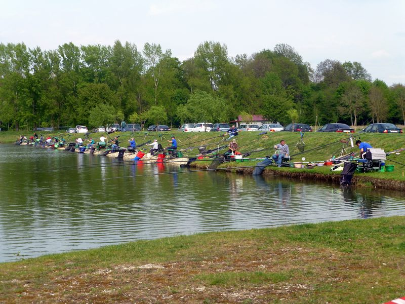 Natjecanje na ribnjaku u Novakovcu